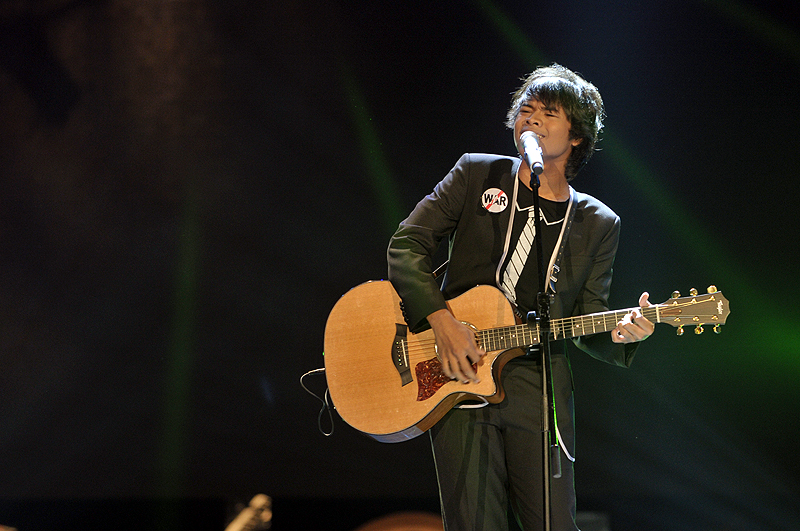 Aizat Amdan performing "Lagu Kita" at the 23rd Anugerah Juara Lagu at Stadium Putra Bukit Jalil on January 18, 2009.